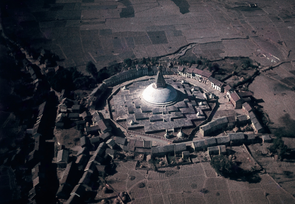 Bouddhanath, 11 kilometres from the centre of Kathmandu, is one of the most important Buddhist sites in Nepal. The white stupa (a mound-like structure containing Buddhist relics) dominates the skyline and with its massive mandala, is one of the largest spherical stupas in the world. Bouddhanath was declared a UNESCO world heritage site in 1979. It is located on the ancient trade route from Tibet entering the valley to the North. Photo: Toni Hagen Stiftung Schweiz-Nepal (Inheritance Toni Hagen), Nepal